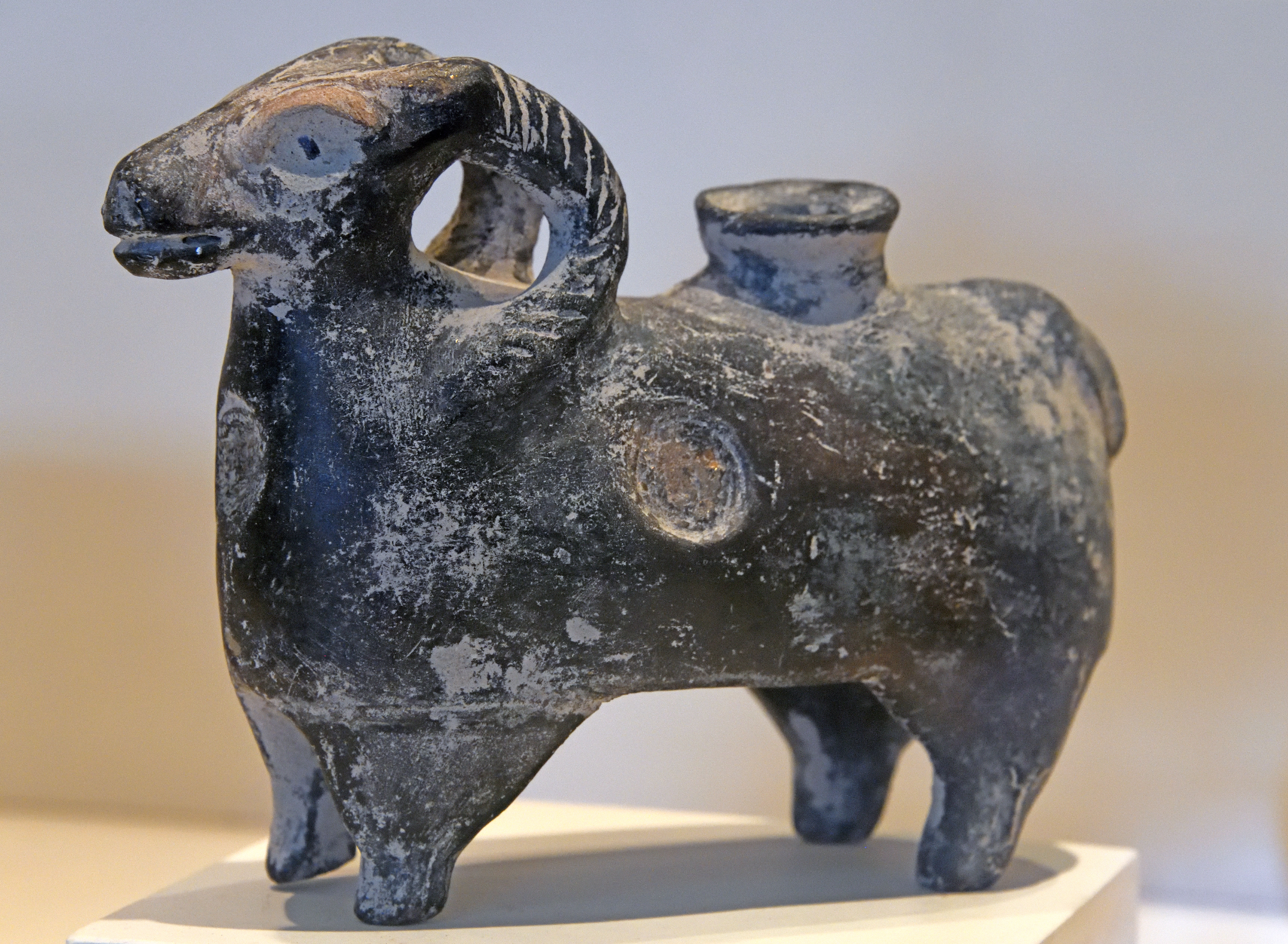 The Bronze age is given as 3000-1200 BC (periods may vary from one region to another).